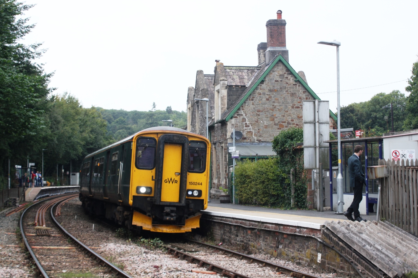 'Sprinter' 150244 calls at Eggesford with a Great Western Railway service from Barnstaple to Exmouth.